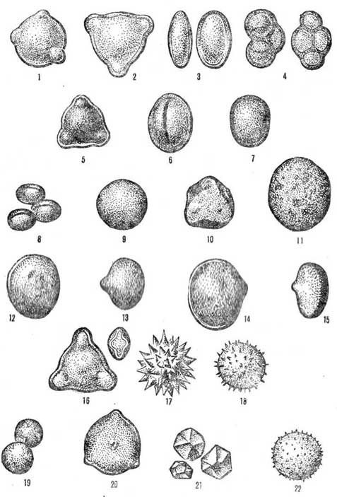 Pollen of plants: 1 - Robinia pseudoacacia; 2 - Crataegus laevigata; 3 - Centaurea cyanus; 4 - Calluna vulgaris; 5 - Cerasus; 6 - Fagopyrum; 7 - Sinapis; 8 - Salix; 9 - Brassica rapa; 10 - Tilia cordata; 11 - Zea mays; 12 - Trifolium repens; 13 - Trifolium hybridum; 14 - Trifolium pratense; 15 - Medicago; 16 - Rubus idaeus; 17 - Bellis perennis; 18 - Malva; 19 - Papaver; 20 - Cucumis sativus; 21 - Taraxacum officinale; 22 - Helianthus annuus.